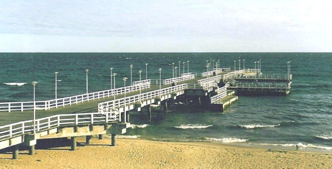 Pier in Brzezno (Gdansk, Poland)